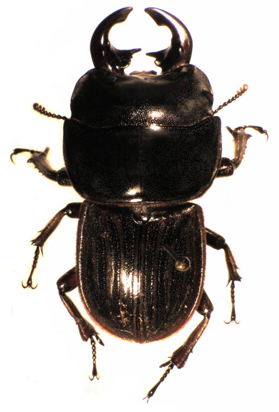 adult male Geodorcus helmsi